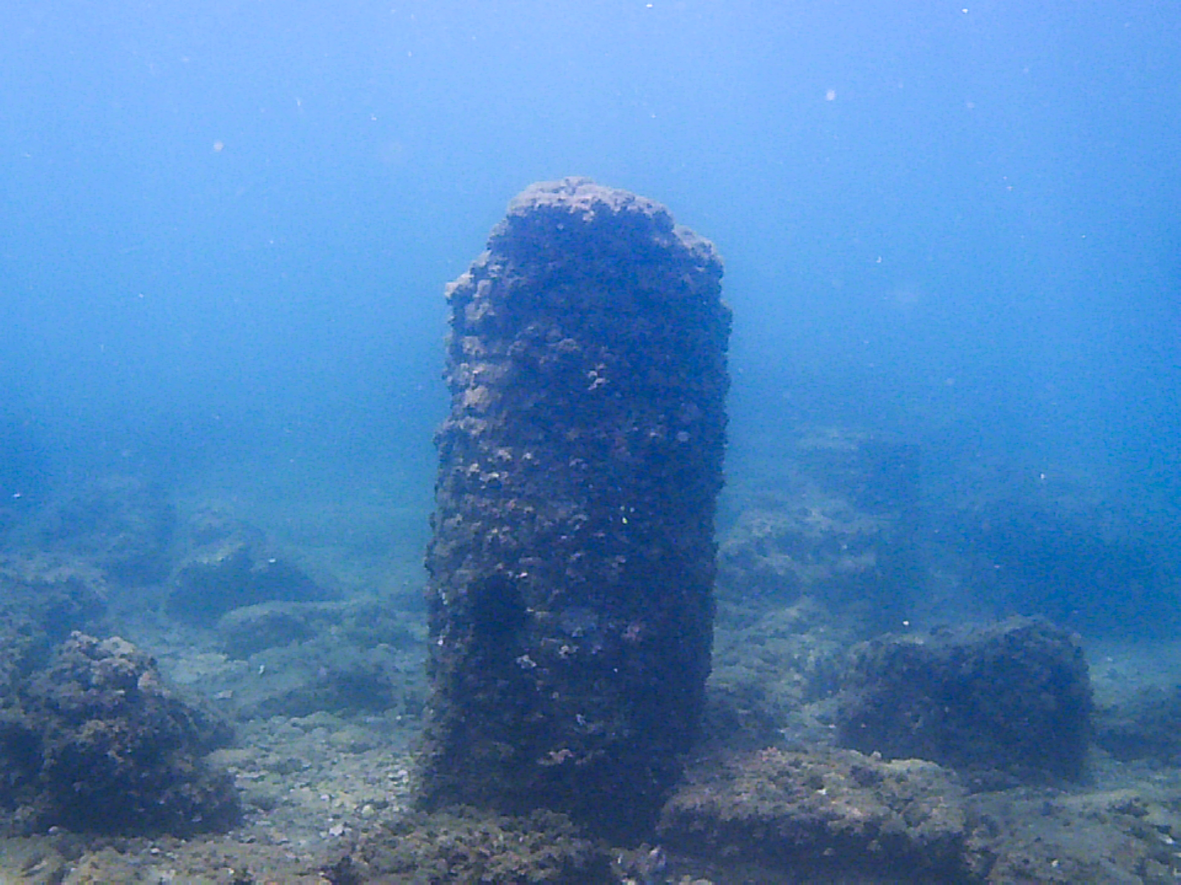 Portus Julius' column.Portus Julius. Underwater Archaeological Park of Baiae